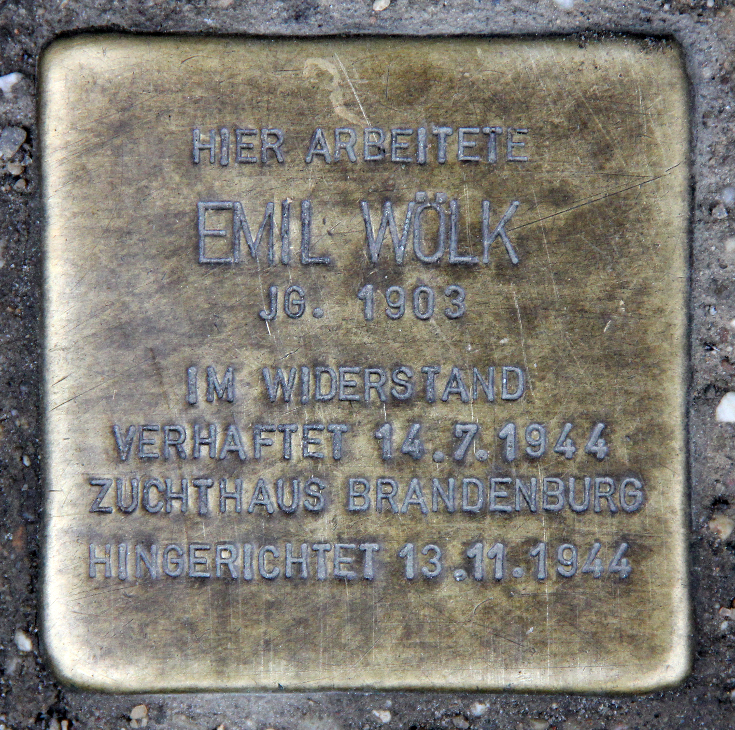 "Stolperstein" (stumbling block), Emil Wölk, Michaelkirchstraße 17, Berlin-Mitte, Germany